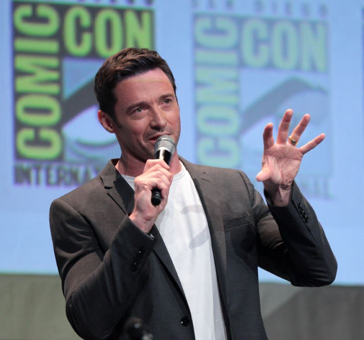 Hugh Jackman speaking at the 2015 San Diego Comic Con International, for "X-Men: Apocalypse", at the San Diego Convention Center in San Diego, California.